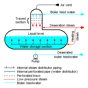 I am the author and I drew this myself using Microsoft's Paint program. It is intended for the Deaerator article in Wikipedia and anywhere else it may be useful. Suggested caption: Diagram of boiler feed water deaerator (with vertical, domed aeration section and horizontal water storage section) - mbeychok 15:32, 31 May 2007 (UTC)